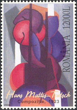 Stamps of Romania, 2004